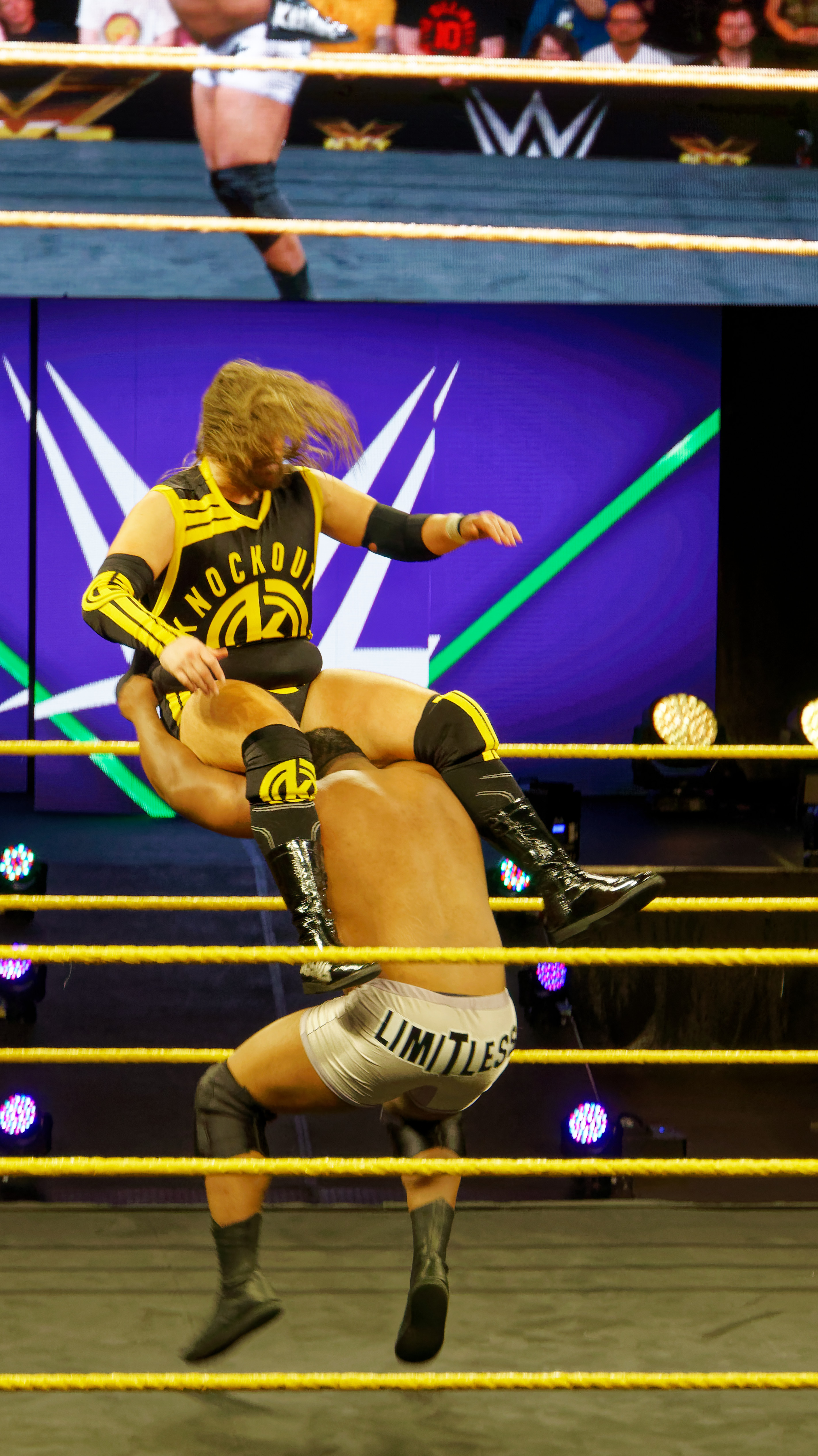 NOLA 2018 - WWE Axxess - Thursday - Keith Lee Vs Kassius Ohno Keith Lee (c) def. (pin) Kassius Ohno For : WWN Title ( Deux semaines a Nola pour la ville et pour WWE Wrestlemania XXXIV Two weeks Nola for the city and for WWE Wrestlemania XXXIV )